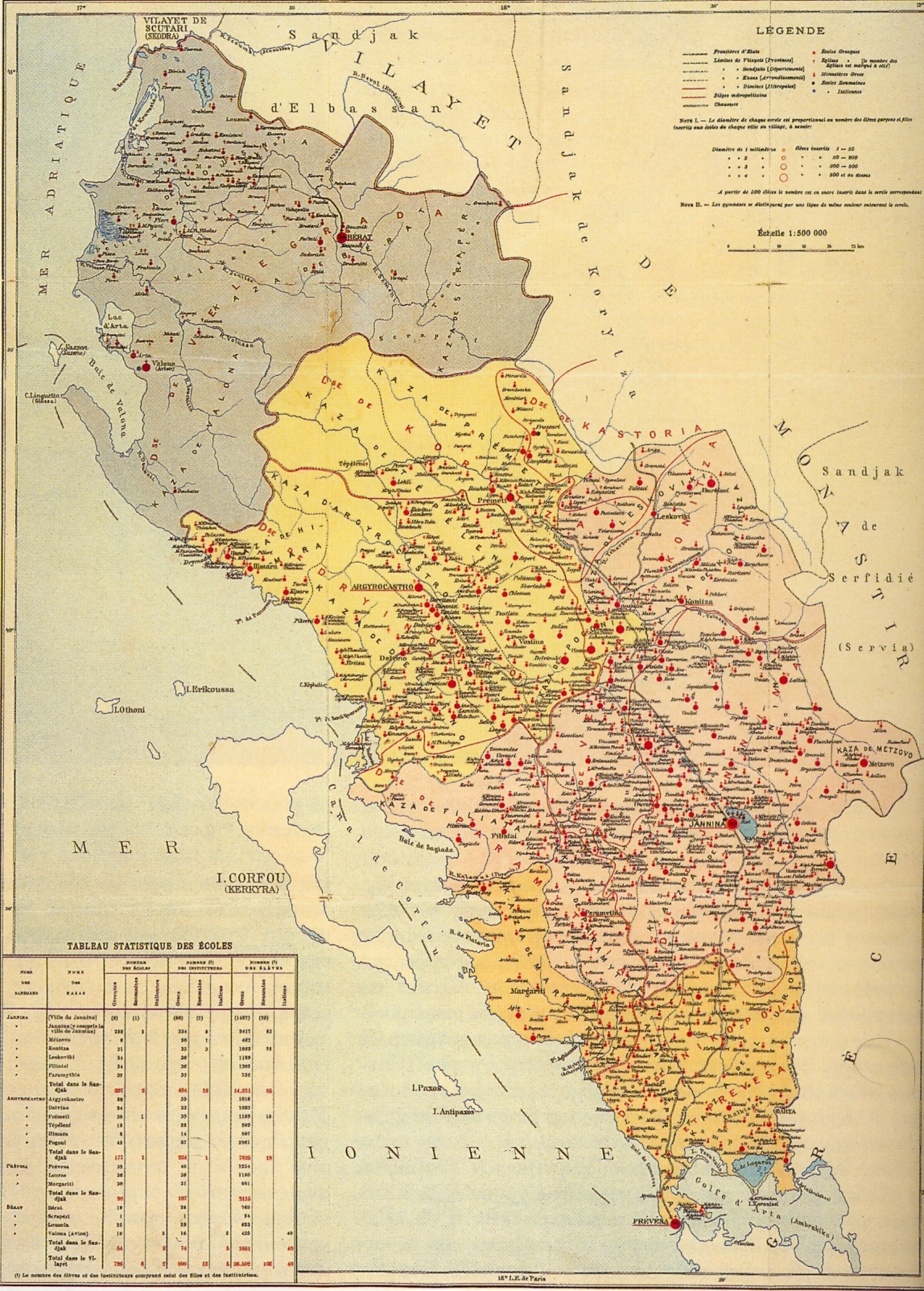 Map of Epirus (1908) by "Instituto Geografico de Agostini" of Rome, showing schools (dot), churches (cross) and monasteries (cycle&cross). Red: Greek, Purple: Romanian, Light blue: Italian